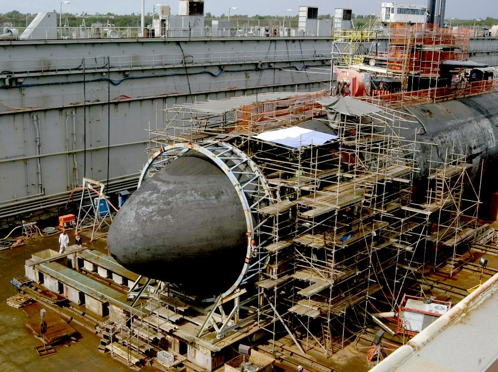 050508-N-0000X-002 Apra Harbor, Guam (May 8, 2005) – The Los Angeles class submarine USS San Francisco (SSN 711) shown in dry dock is having repairs made on its damaged bow. A new large steel dome about 20 feet high and 20 feet in diameter was put in the place of the damaged bow. San Francisco ran aground 350 miles south of Guam Jan. 8, killing one crew member and injuring 23. U.S. Navy photo (RELEASED)